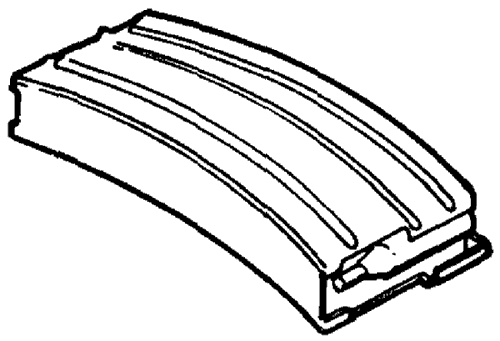 A Magazine from an M16 rifle. Image is a product of the federal government of the United States and is therefore not subject to copyright restrictions. For original context please see Technical Manual 9-1005-249-10 (PDF).